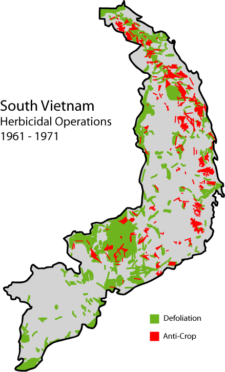 Image made after HERBS file maps.